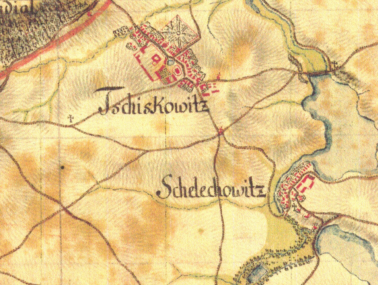 Čížkovice and Želechovice on a map of The First Military Mapping Survey of Austrian Empire.